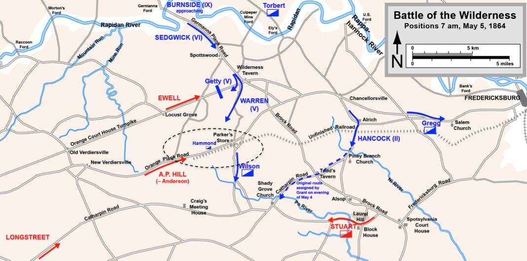 Map of the initial positions in the Battle of the Wilderness of the American Civil War with the position of the 5th New York Cavalry commanded by John Hammond circled. Drawn in Adobe Illustrator CS5 by Hal Jespersen. Graphic source file is available at